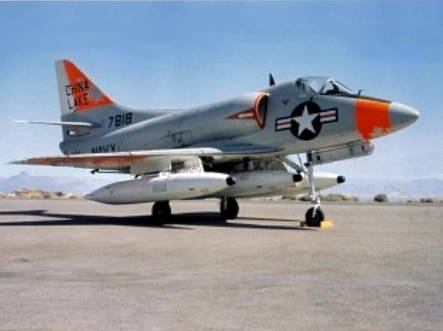 A U.S. Navy Douglas A-4A Skyhawk (BuNo 137818) armed with Mk 4 HIPEG gun pods at the Naval Air Weapons Station China Lake, California (USA), on 24 January 1964.